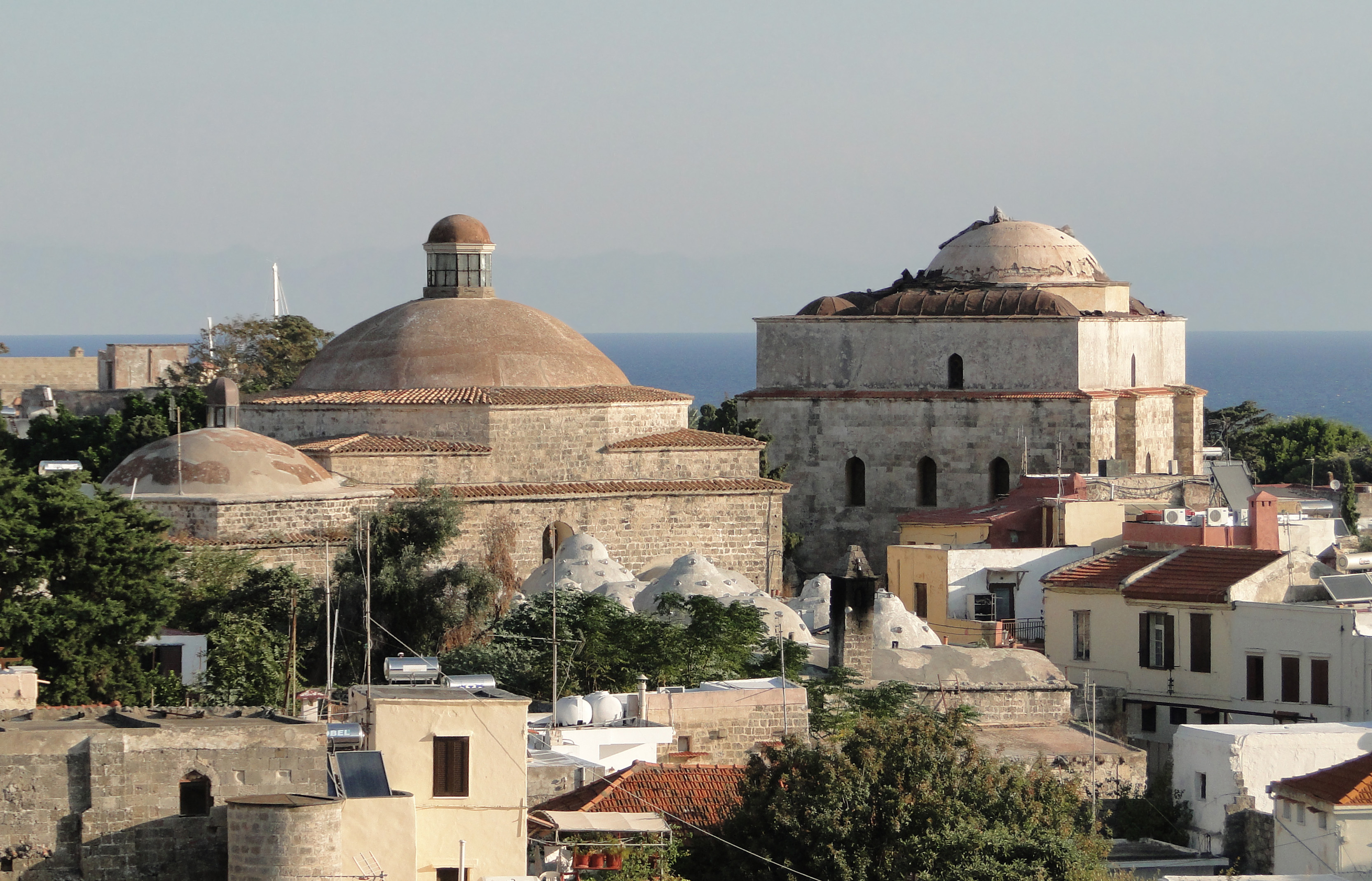 Yeni Hamam Baths (at left) and Mustafa Pasha Mosque (at right) in the Medieval City of Rhodes, Greece